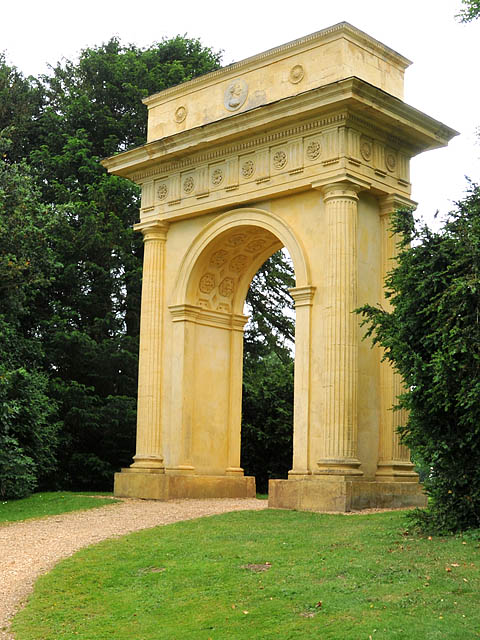 The Doric Arch, Stowe, Buckinghamshire, built in 1767